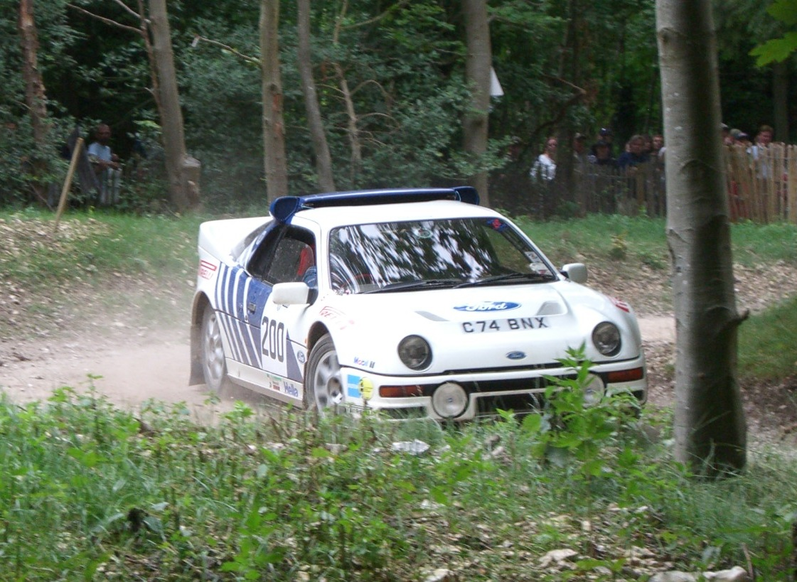 1986 Ford RS200 at 2006 GFOS